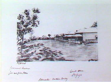 View of Darwin by Rosa Fiveash, pencil sketch